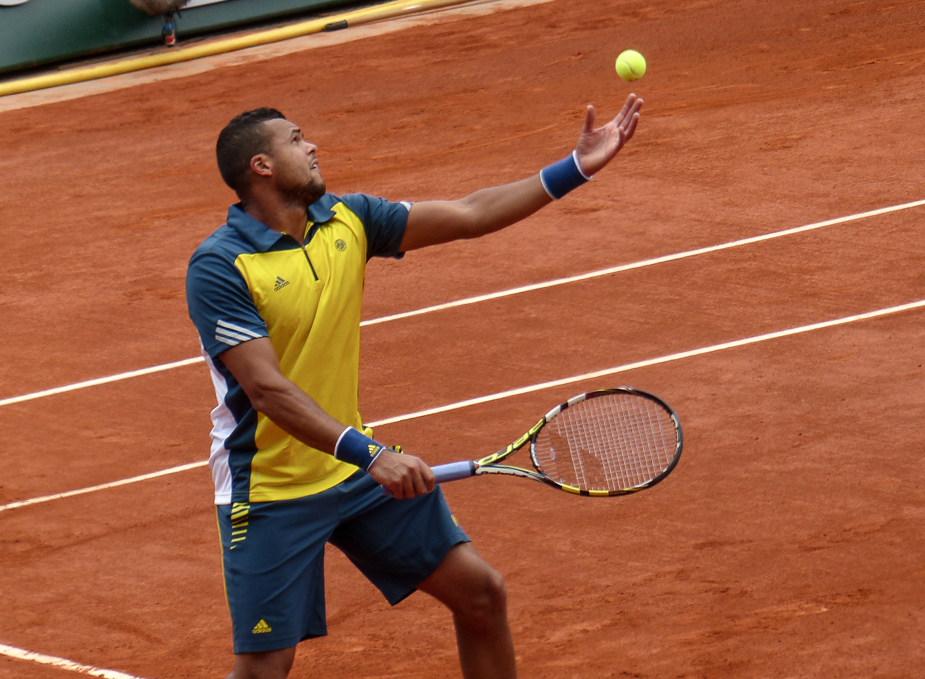 2ème tour Roland Garros 2013 : Jo-Wilfried Tsonga (FRA) def. Jarkko Nieminen (FIN)